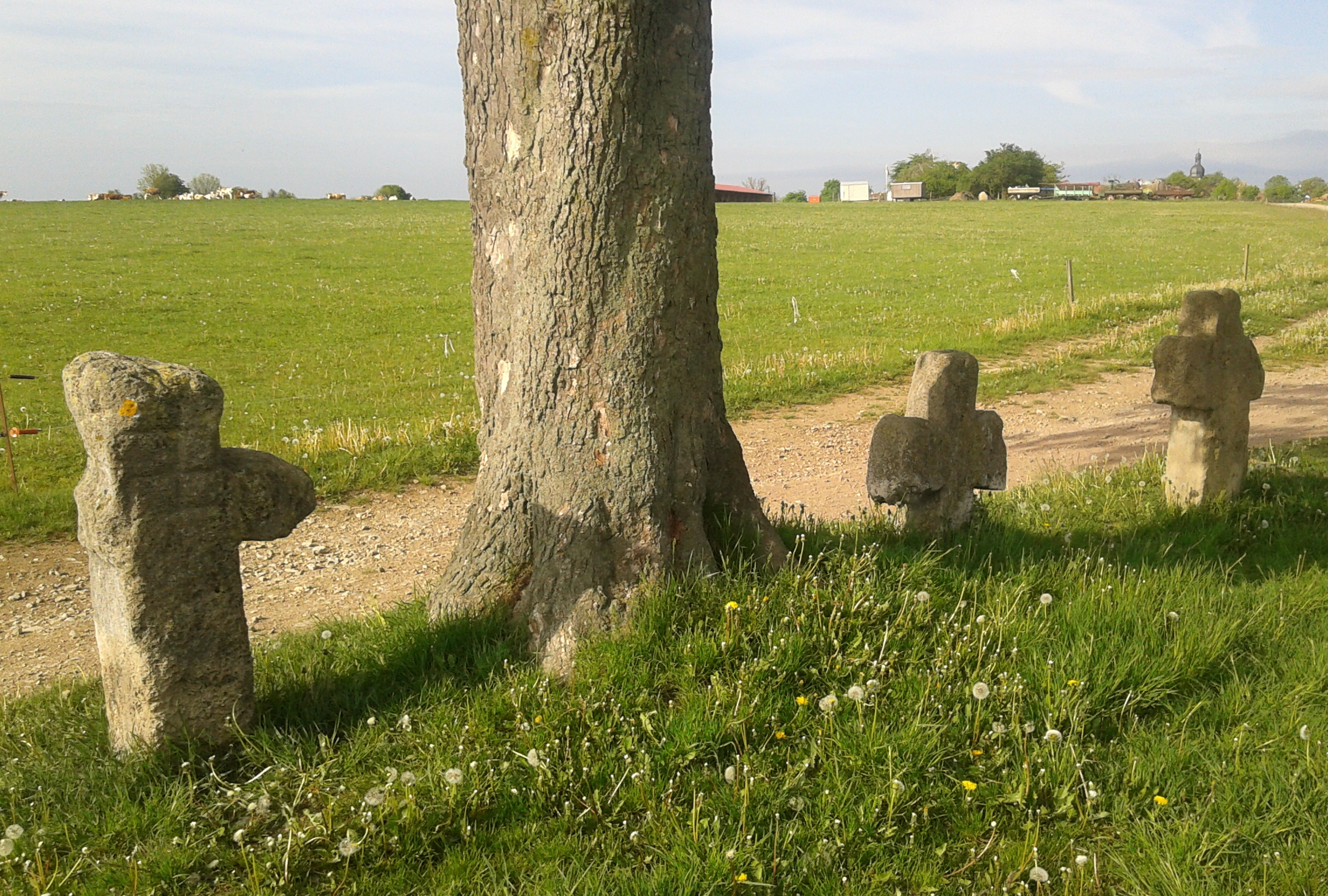 Three stone crosses near Gossel village, Ilm-Kreis, Germany